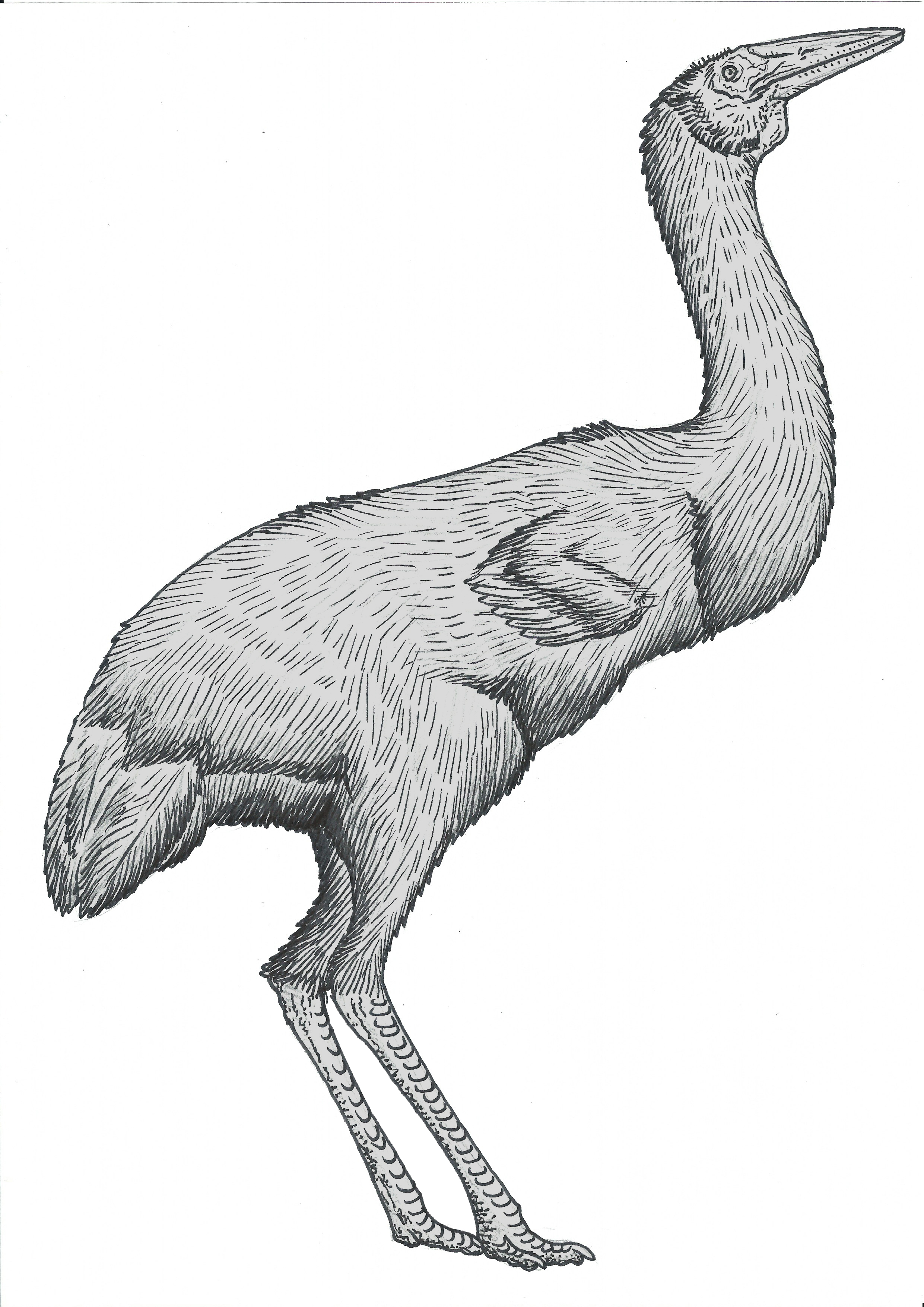 Ergilornis by Tim Morris